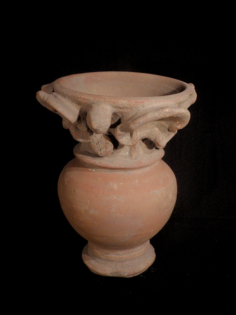 Ht 29cm x 23 (at the top) cm